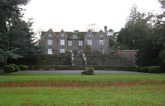 Llanvihangel Court from the north-east on a misty November day.